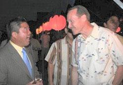 Consul General Maher greets Japanese Diet Member The Mikio Shimoji.